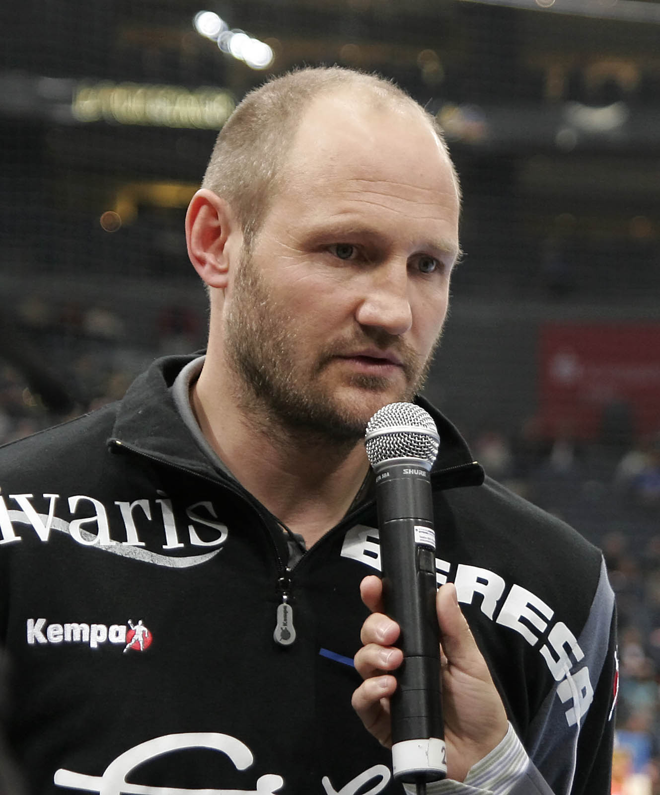 Ola Lindgren, coach of HSG Nordhorn. Former Swedisch international player. Picture made prior the game VfL Gummersbach vers. HSG Nordhorn in Cologne (Köln-Arena)